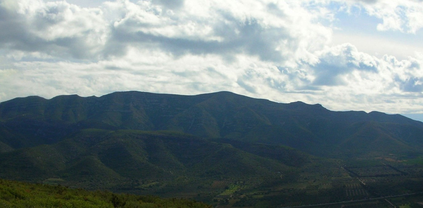 Serra de Montsia mountain range. Central section showing the highest peaks